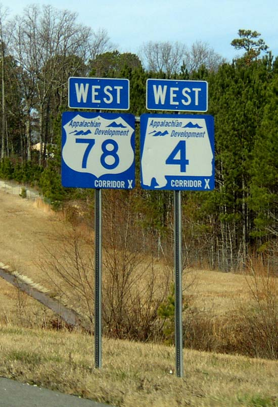 Corridor X shields along future Interstate 22 in Marion County, Alabama.